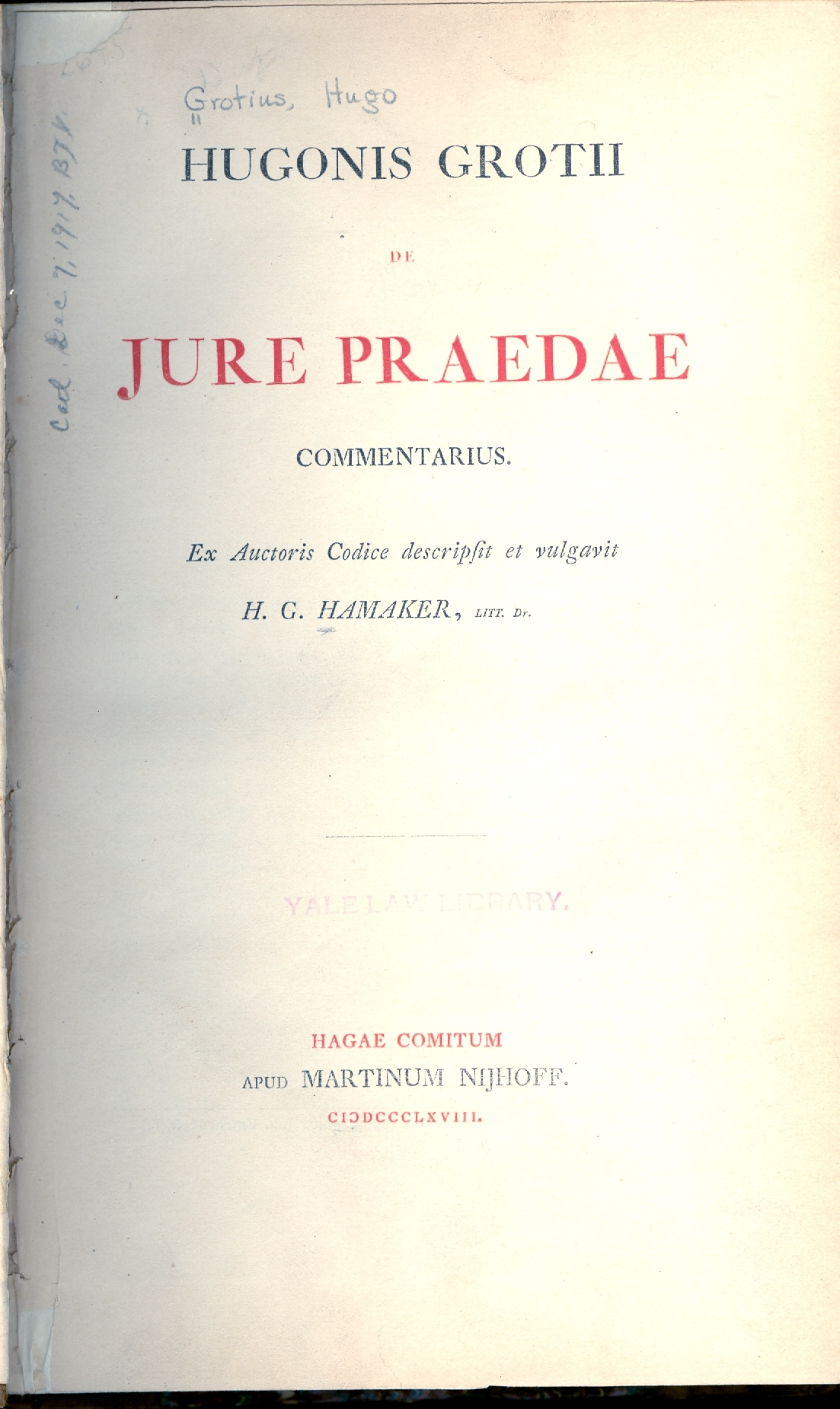 Source: Hugo Grotius, DE JURE PRAEDAE (The Hague, 1868), call no. JX 2094.A1 1868.